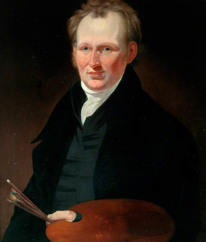 Self-portrait of John Bradley (1787–1844) of Keighley, Yorkshire, co-founder of the Keighley Mechanics Institute and art teacher to the Brontës.